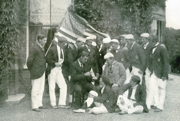 Cornell's 1895 Henley Royal Regatta Varsity Crew - (Standing L to R) F. W. Freeborn, E. O. Spillman, W. Bentley, G. P. Dyer, R. B. Hamilton, E. C. Hager, T. F. Fennell, R. L. Shape, M. W. Roe, T. Hall, C. A. Louis (Sitting L to R) C. E. Courtney, C. S. Francis (On ground L to R) F. D. Colson , F. B. Matthews